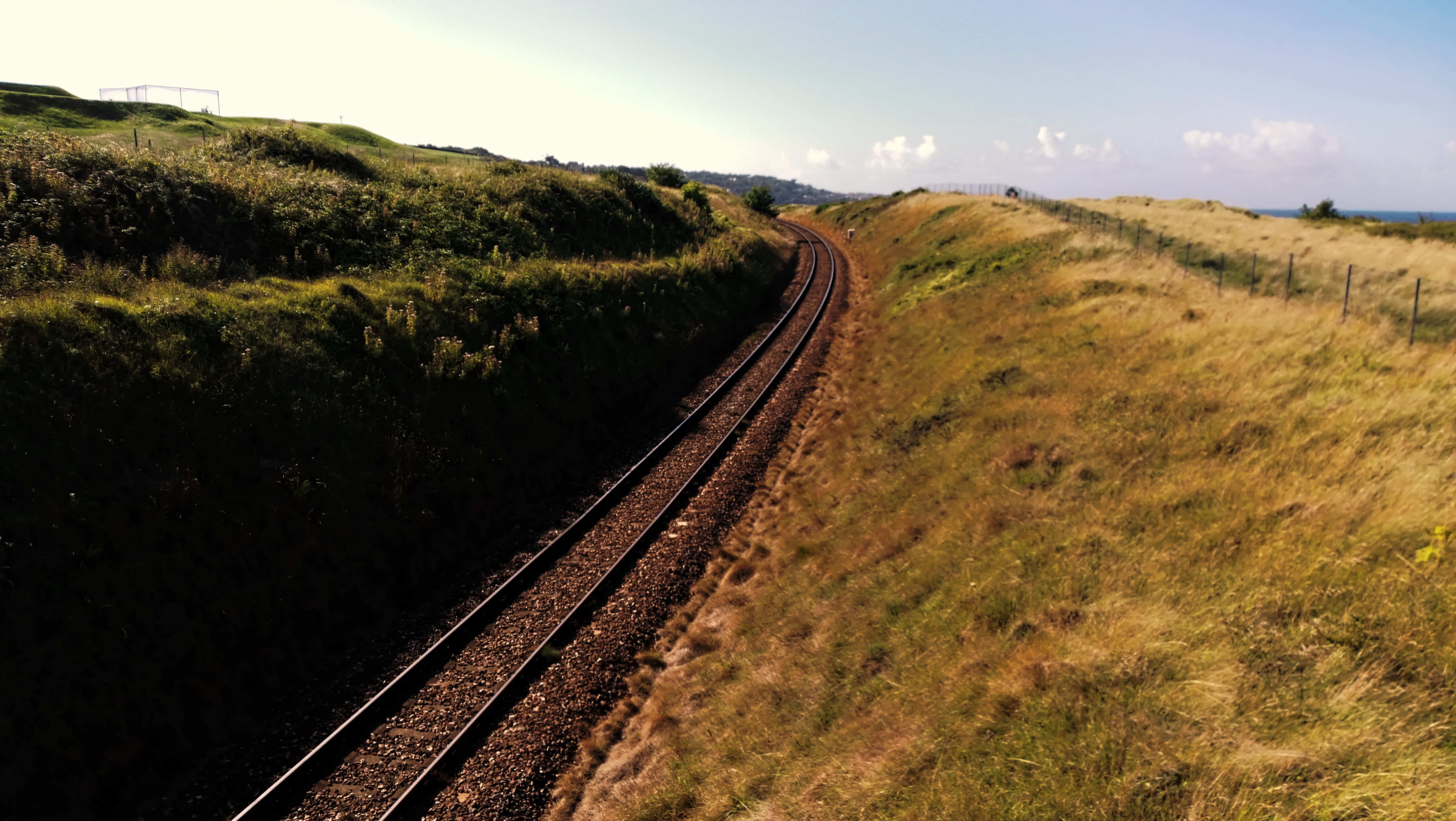 The railway line running through the top of Porthkidney Beach, Lelant...